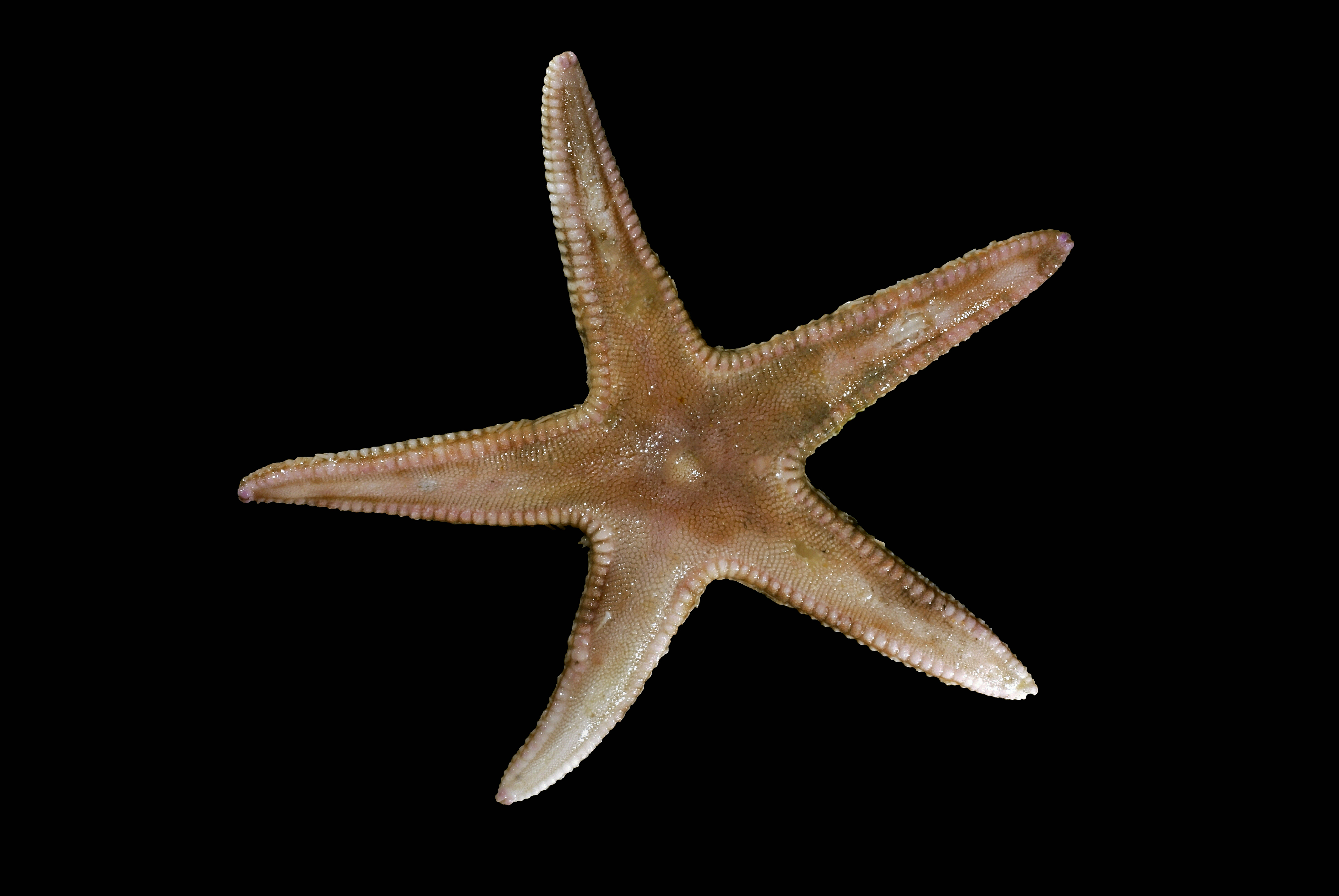 Sand Star from the Celtic Sea, south west of Lundy.